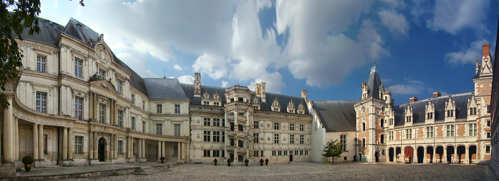 Château de Blois, Loir-et-Cher, Centre, France. Panorama of the interior façades. From right to left: the Louis XII flamboyant wing, the medieval Gothic castle, the François I Renaissance wing, and the Gaston d'Orléans classic wing.